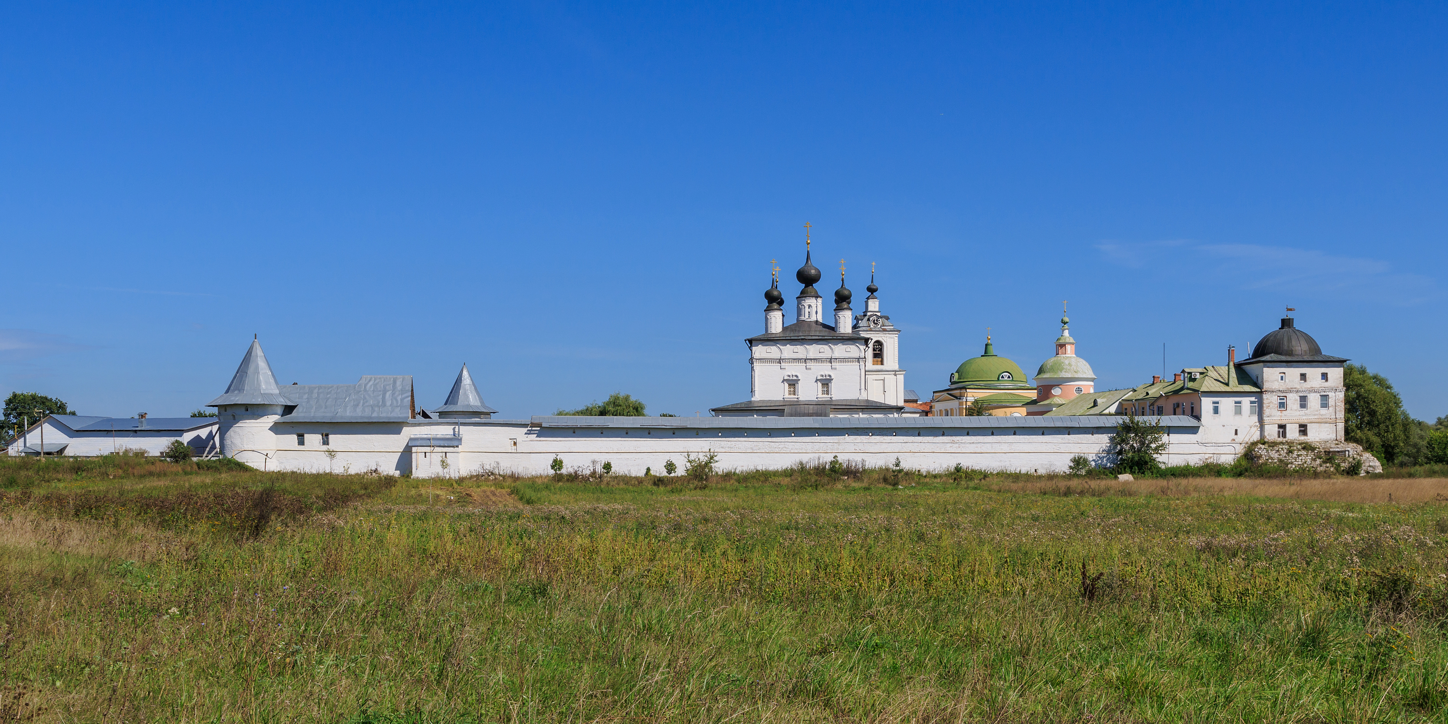 Belopesotsky Convent in Stupino. Moscow Oblast, Russia.